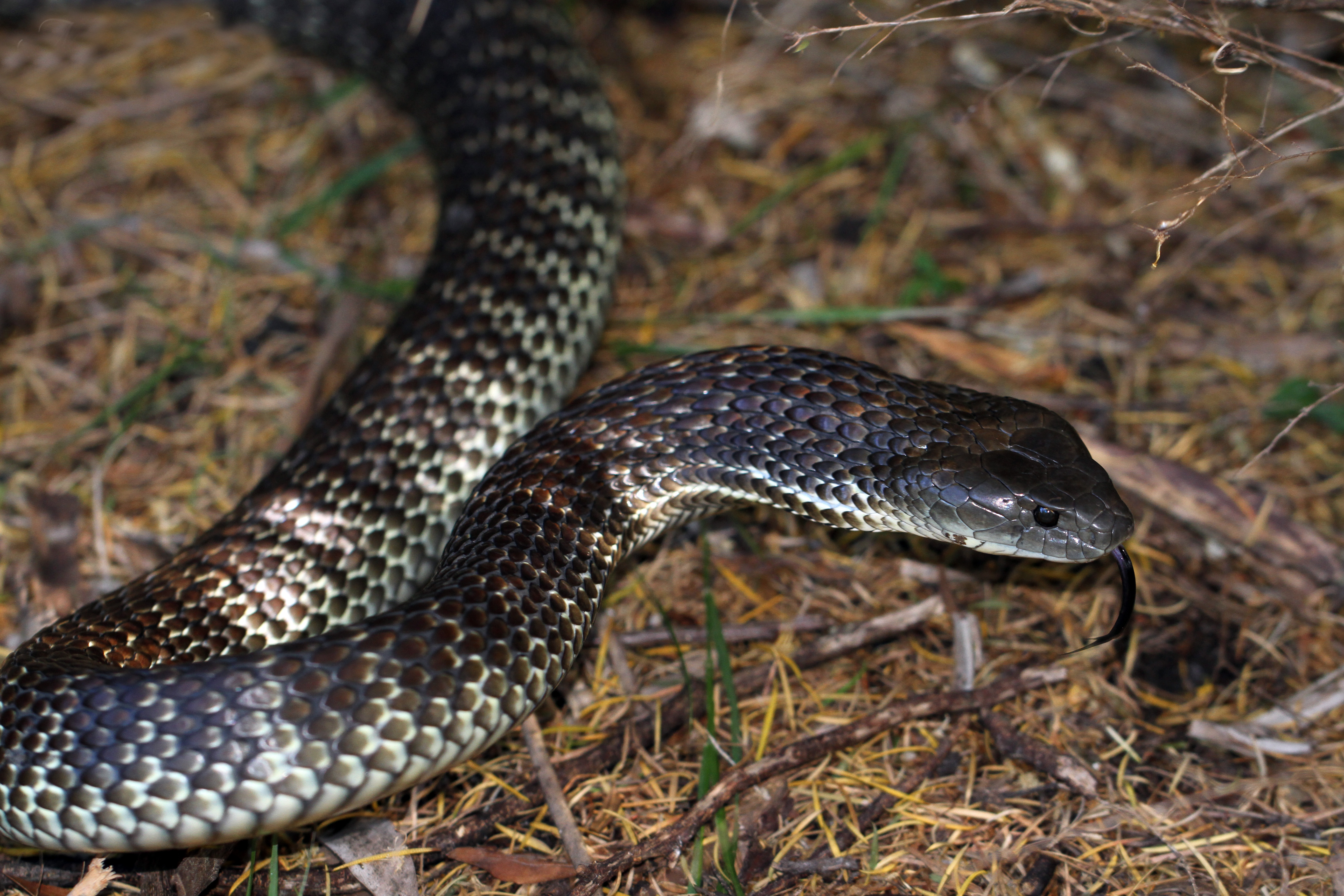 East Gippsland, Vic.